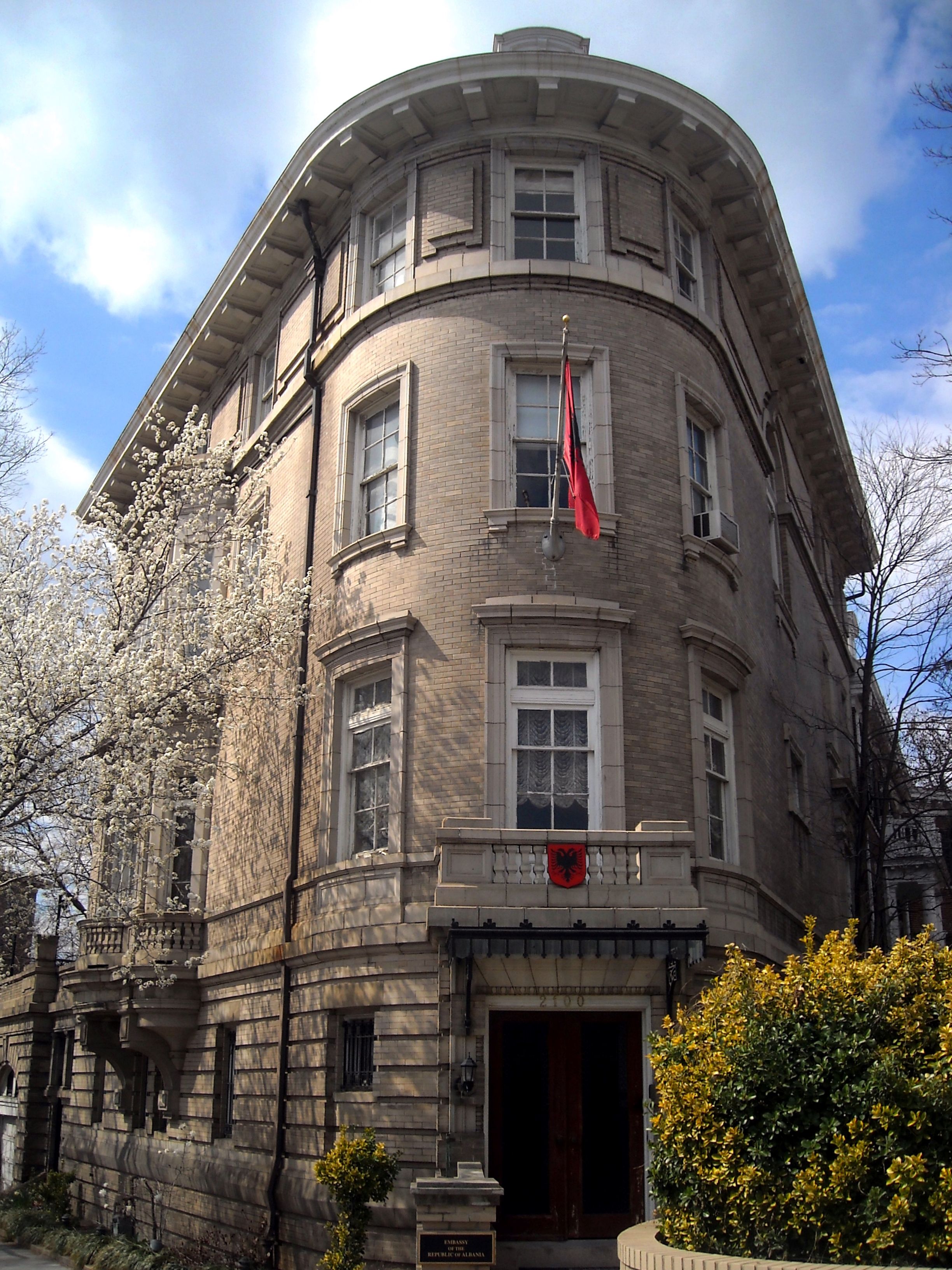 The Embassy of Albania located at 2100 S Street, Northwest in the Sheridan-Kalorama neighborhood of Washington, D.C.